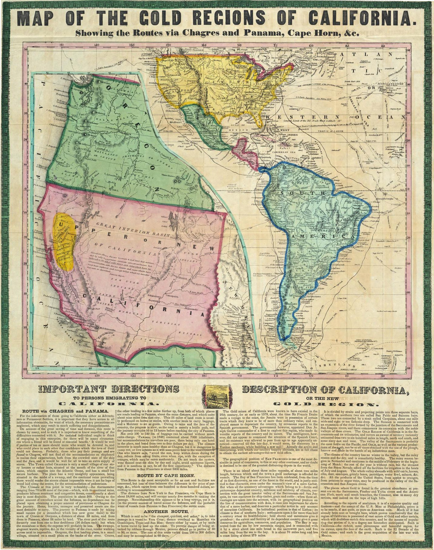 Map of the Gold Regions of California, Showing the Routes via